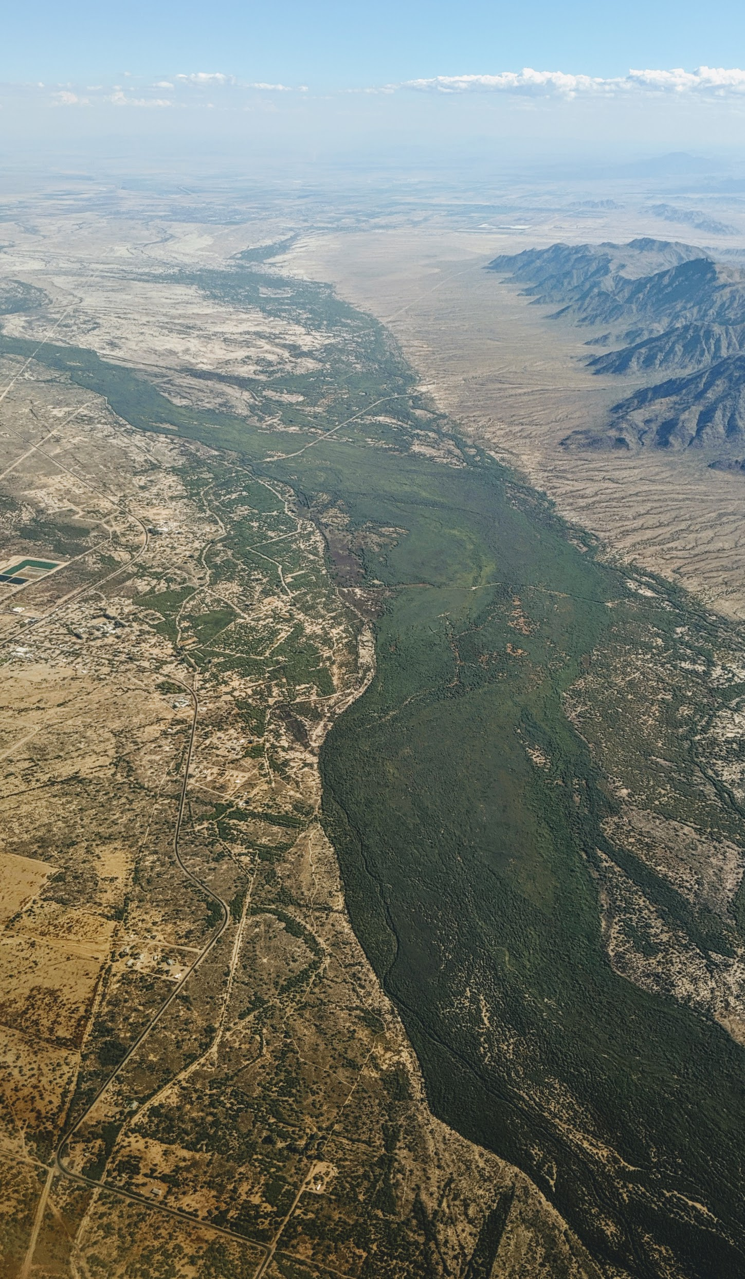 Aerial view from the north of the Gila River at Komatke, Arizona, just south of Phoenix. The river is flowing from south (distance) to north (foreground) at this point.